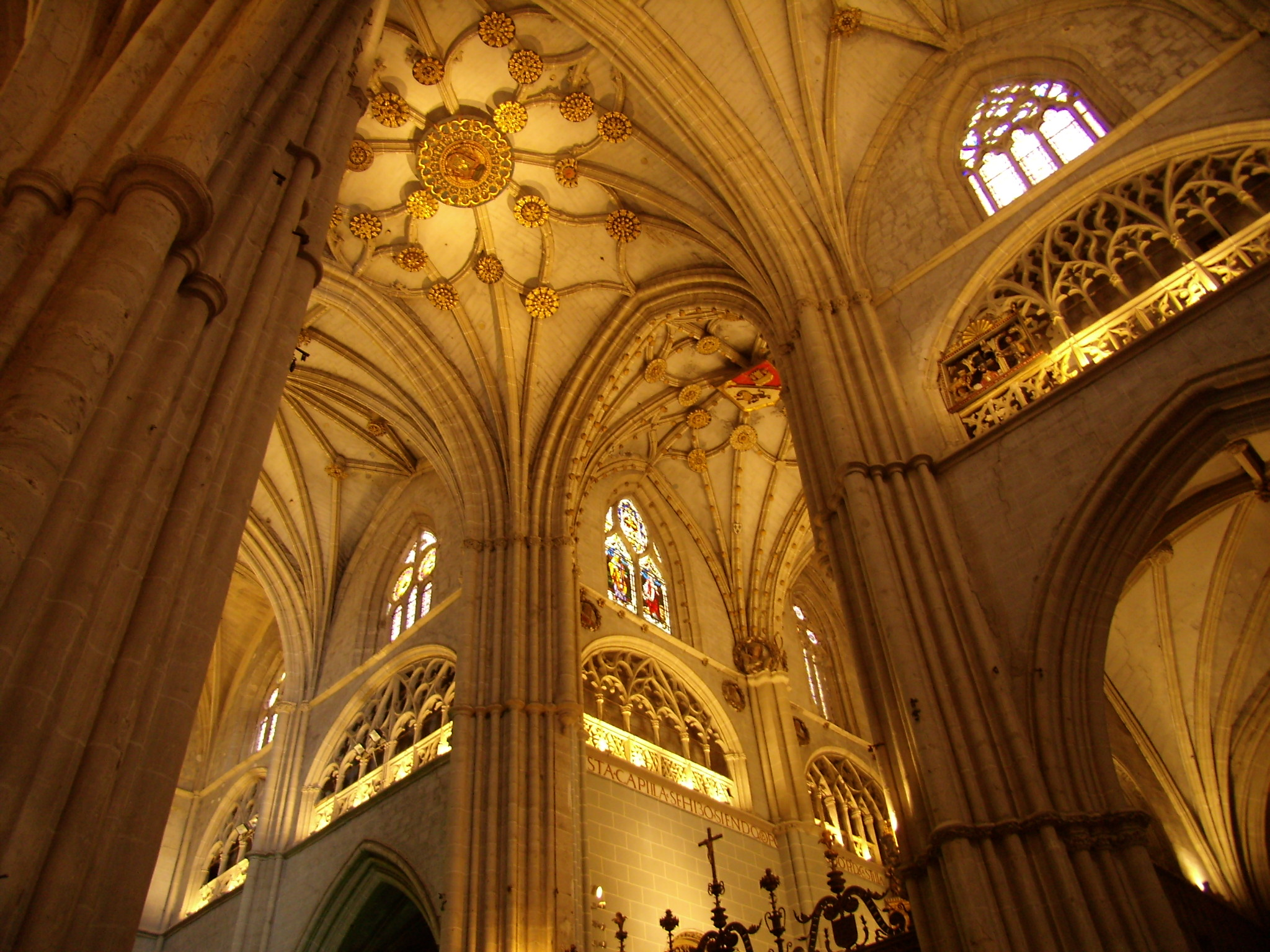 Palencia Cathedral (Spain).